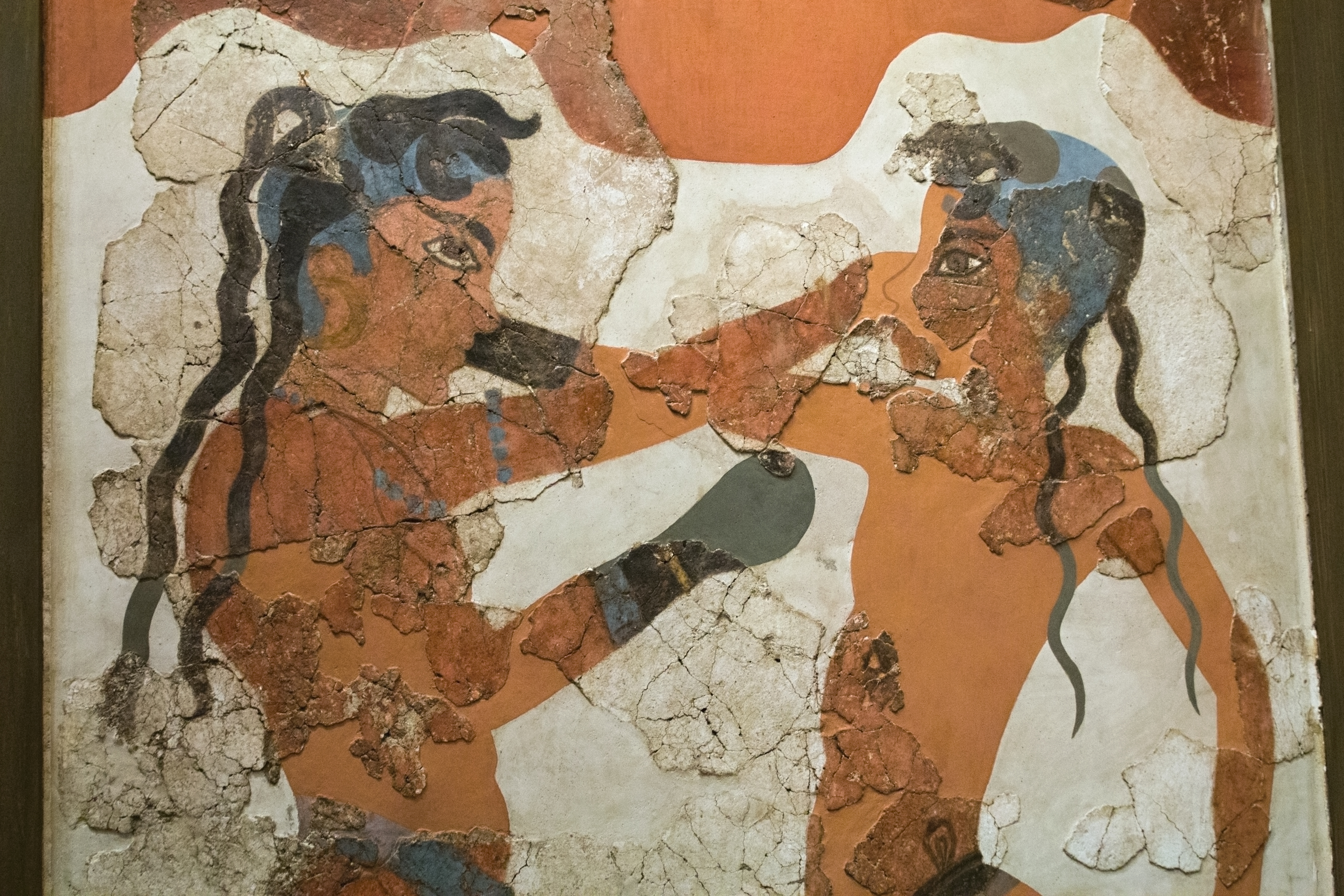 Young boxers wall painting. Akrotiri, Room B 1, building B. This fresco depicts two naked children wearing a belt and boxing gloves. (If the fresco was correctly assembled and reconstructed.) Their head is shaved, excepted two long locks on the back, and two shorter on the forehead. Their dark skin indicates their gender. The boy at left is more reserved, and wears jewellery (bracelets, necklace) which indicates a high social status. Work from the same artist of the Antelopes fresco. 16th century BC by description in the Museum, rather 17th century BC (before the Thera explosion ca 1628 BC). National Archaeological Museum of Athens, inv. no. BE 974.26.